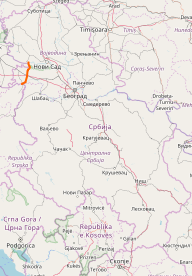 OpenStreetMap of State Road 19 in Serbia.